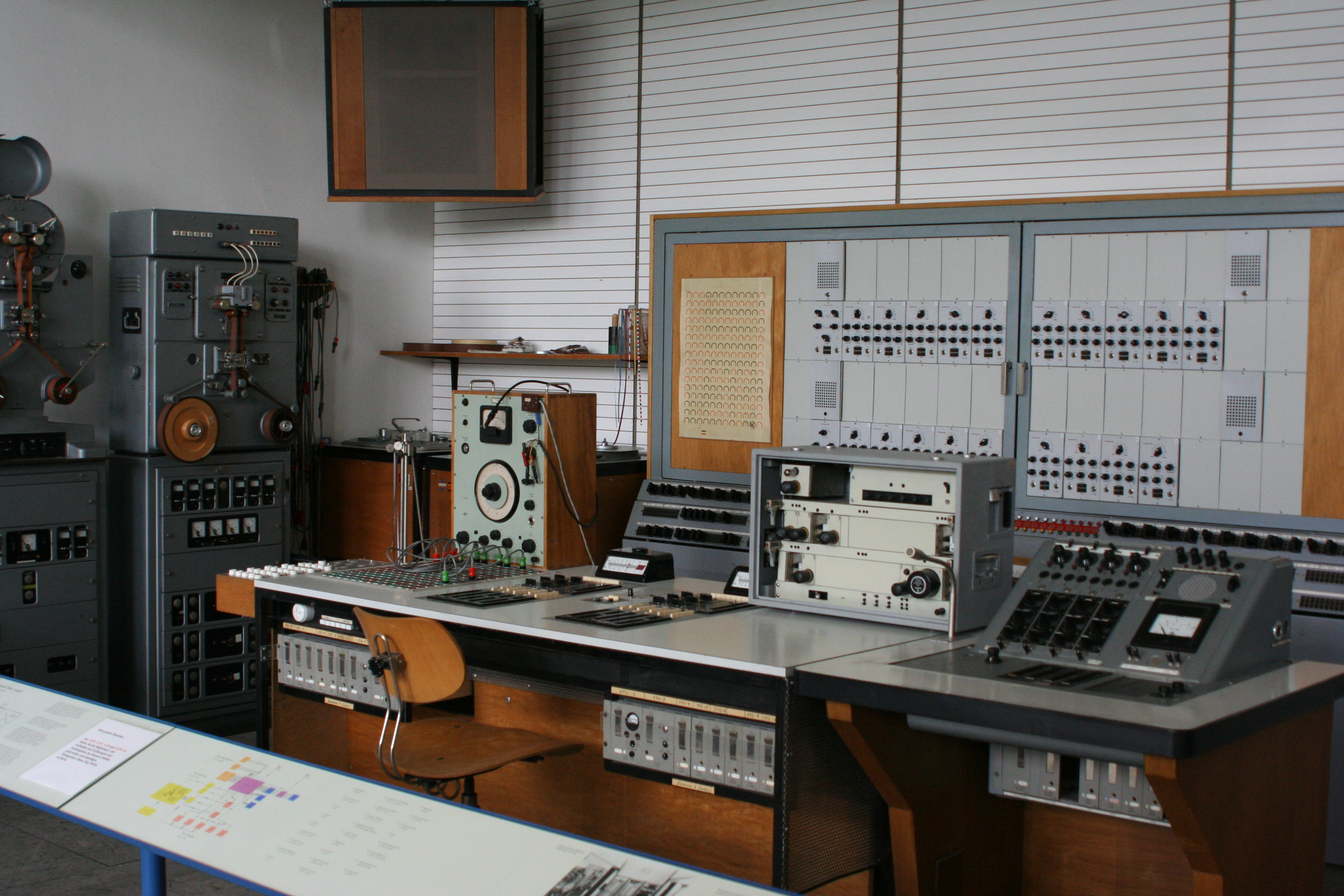 Description Siemens Studio (1959-1969) as seen in the Deutsches Museum in Munich Germany The studio equipments in this photograph are also referred as "Siemens synthesizer" in 120 Years of Electronic Music. References Siemens-Studio, Deutsches Museum "The 'Siemens Synthesiser' or Siemens Studio For Electronic Music (1959-1969)" in 120 Years of Electronic Music (PDF version) The 'Siemens Synthesiser' or Siemens Studio For Electronic Music (1959-1969), (mirror of 120 Years of Electronic Music), Audio Playground Synthesizer Museum studio equipments history of “Siemens Studio for Electronic Music” YouTube - Munich, Electronic Music Studio in Deutsches Museum Date 4 August 2006Source Own work by the original uploaderAuthor Ben Franske (BenFranske) Siemens Studio (1959-1969) as seen in the Deutsches Museum in Munich Germany The studio equipments in this photograph are also referred as "Siemens synthesizer" in 120 Years of Electronic Music. References Siemens-Studio, Deutsches Museum "The 'Siemens Synthesiser' or Siemens Studio For Electronic Music (1959-1969)" in 120 Years of Electronic Music (PDF version) The 'Siemens Synthesiser' or Siemens Studio For Electronic Music (1959-1969), (mirror of 120 Years of Electronic Music), Audio Playground Synthesizer Museum studio equipments history of “Siemens Studio for Electronic Music” YouTube - Munich, Electronic Music Studio in Deutsches Museum